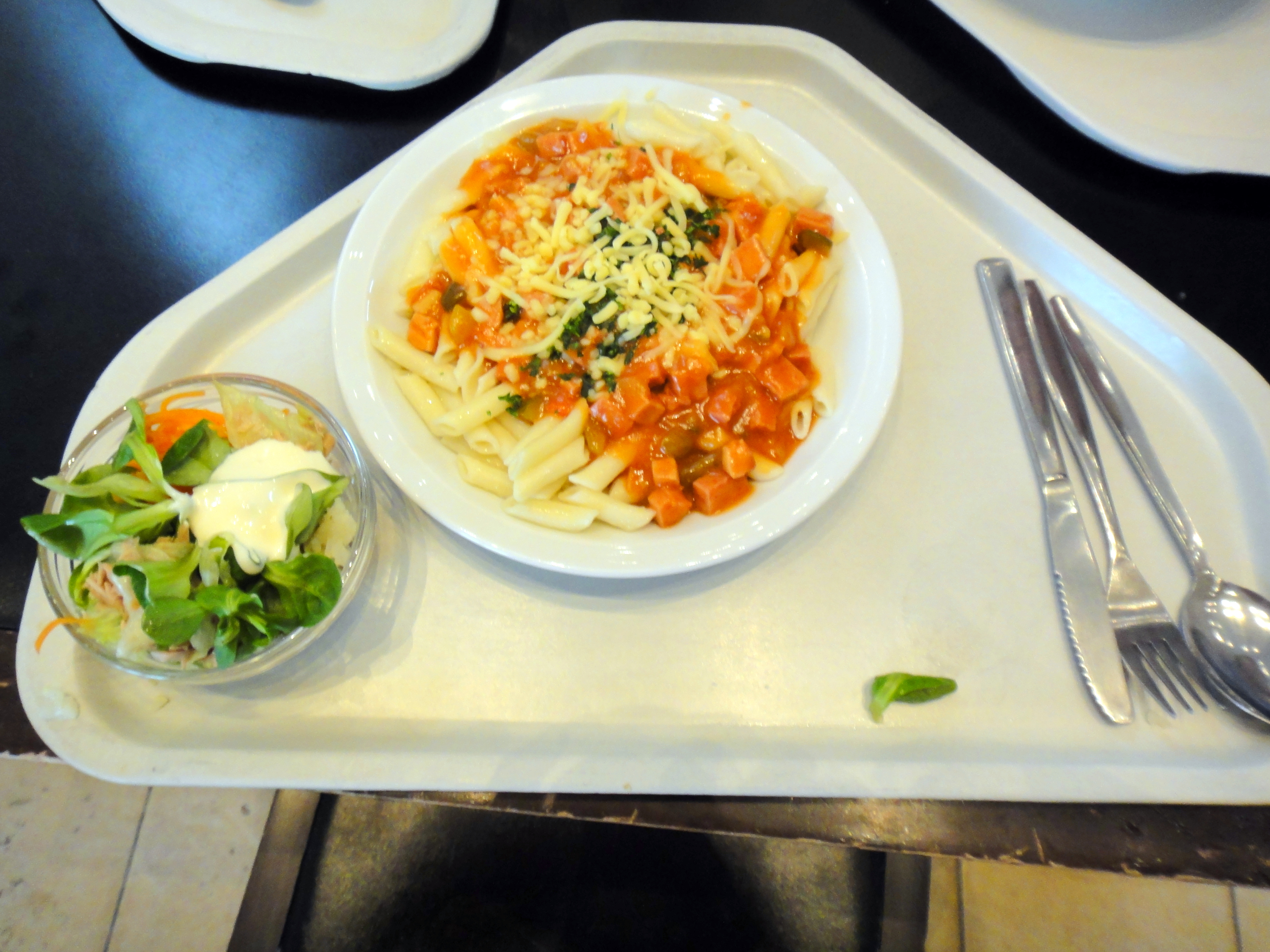 "Wurstgulasch" (sausage goulash) with noodles from a quite typical German cafeteria.